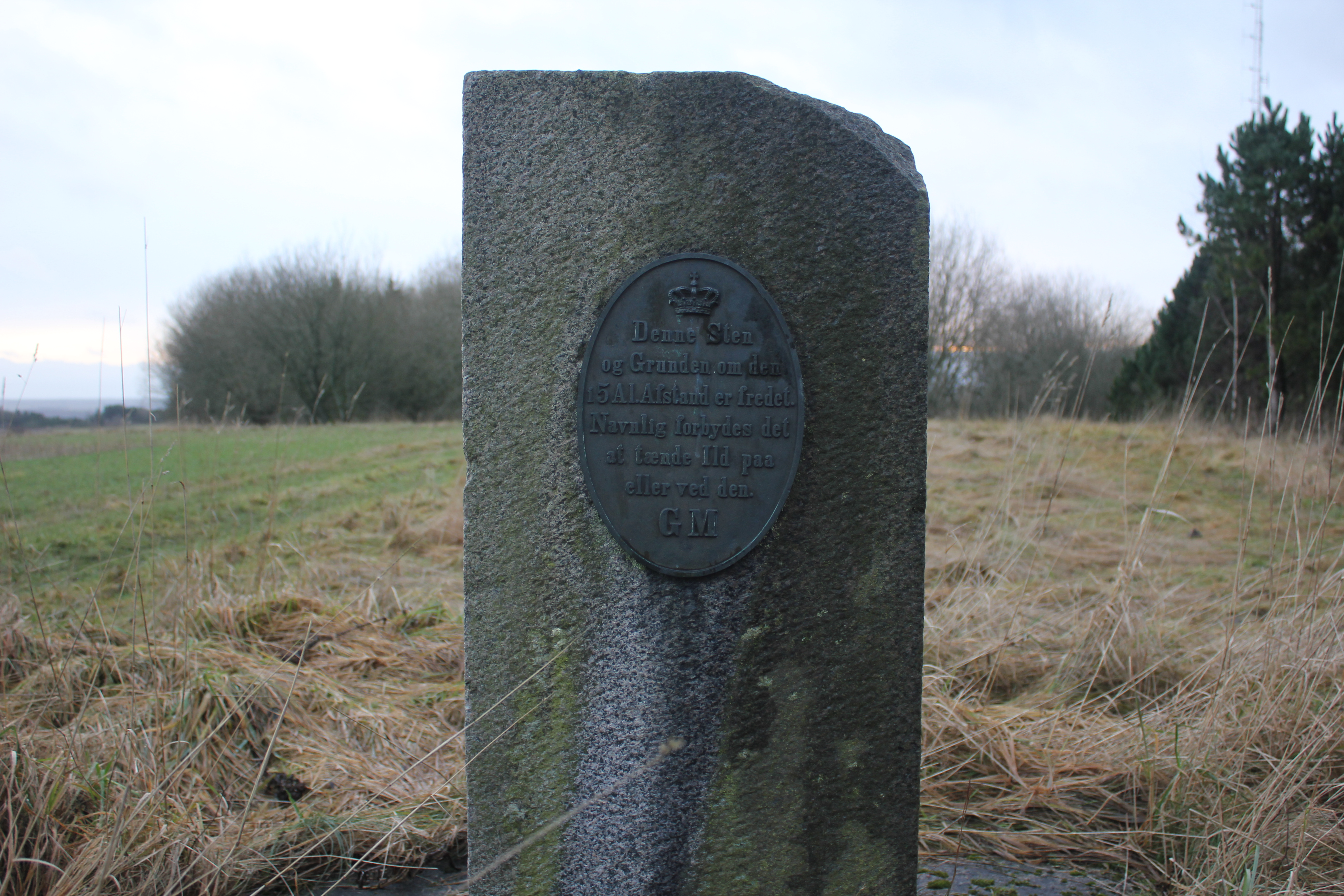 Reference point marker in Denmark. The plate on the stone states that "This stone and the area surrounding it for a distance of 3m is protected. Specifically it is forbidden to light a fire on or near [the stone]. [Signed] GM". The length is written on the stone as "5 Al", which is 5 Danish Ells (alen), roughly the equivalent of 3 meters. "GM" is the signature for the organisation "Graadmaalingen", which was the name of the Danish Geodata Agency between 1816 and 1842.